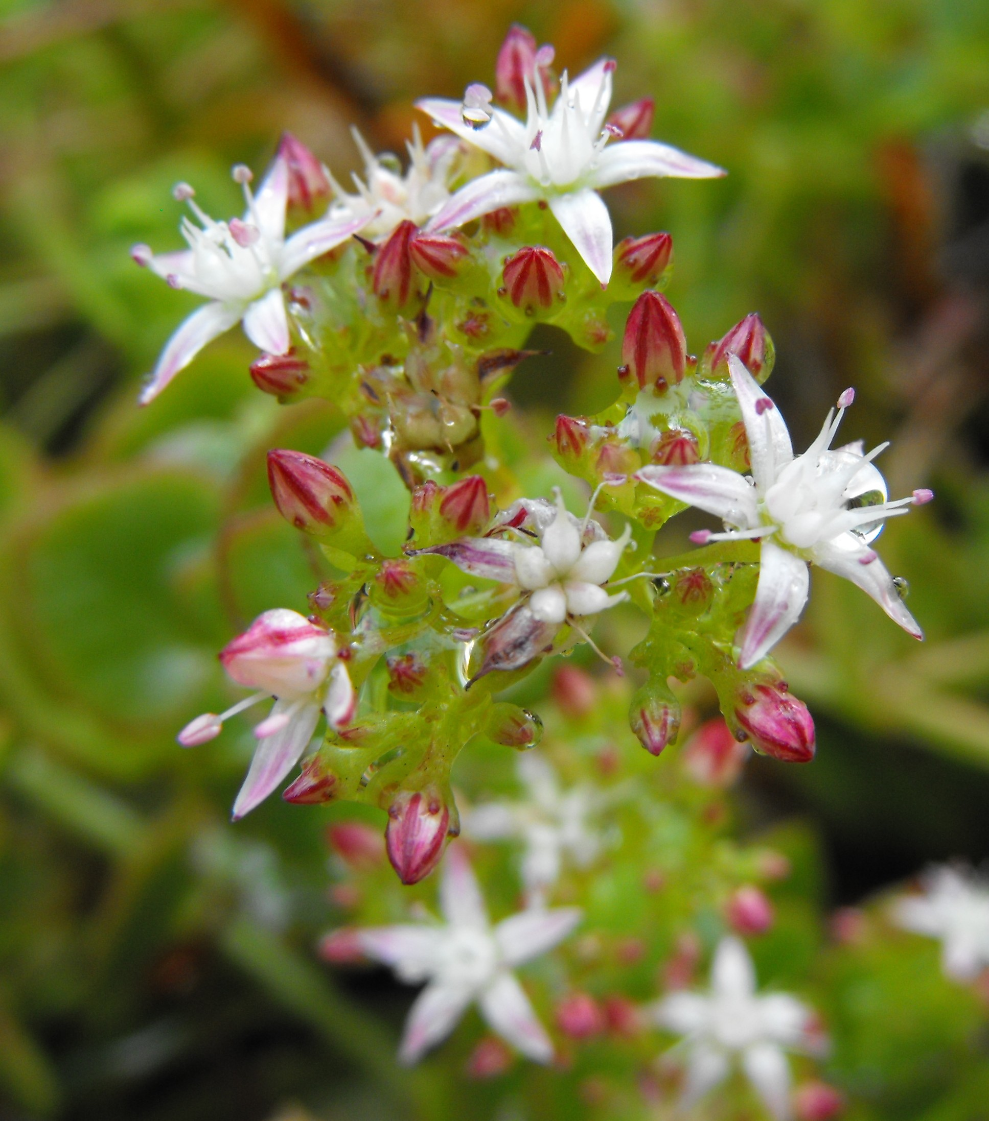 Crassula spathulata at the Huntington Library & Botanical Gardens in San Marino, California, USA. Identified by sign.